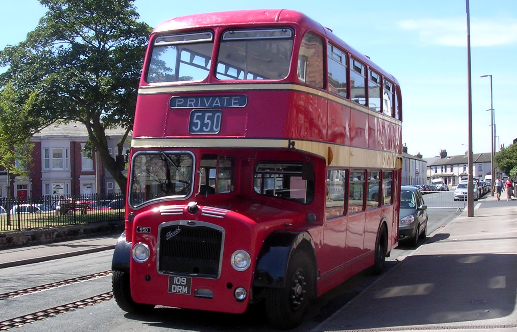 A preserved Bristol Lodekka FS6G/ECW at the Fleetwood Tram Sunday 2006. It was previous operated by Cumberland Motor Services, whose successor is Stagecoach North West.